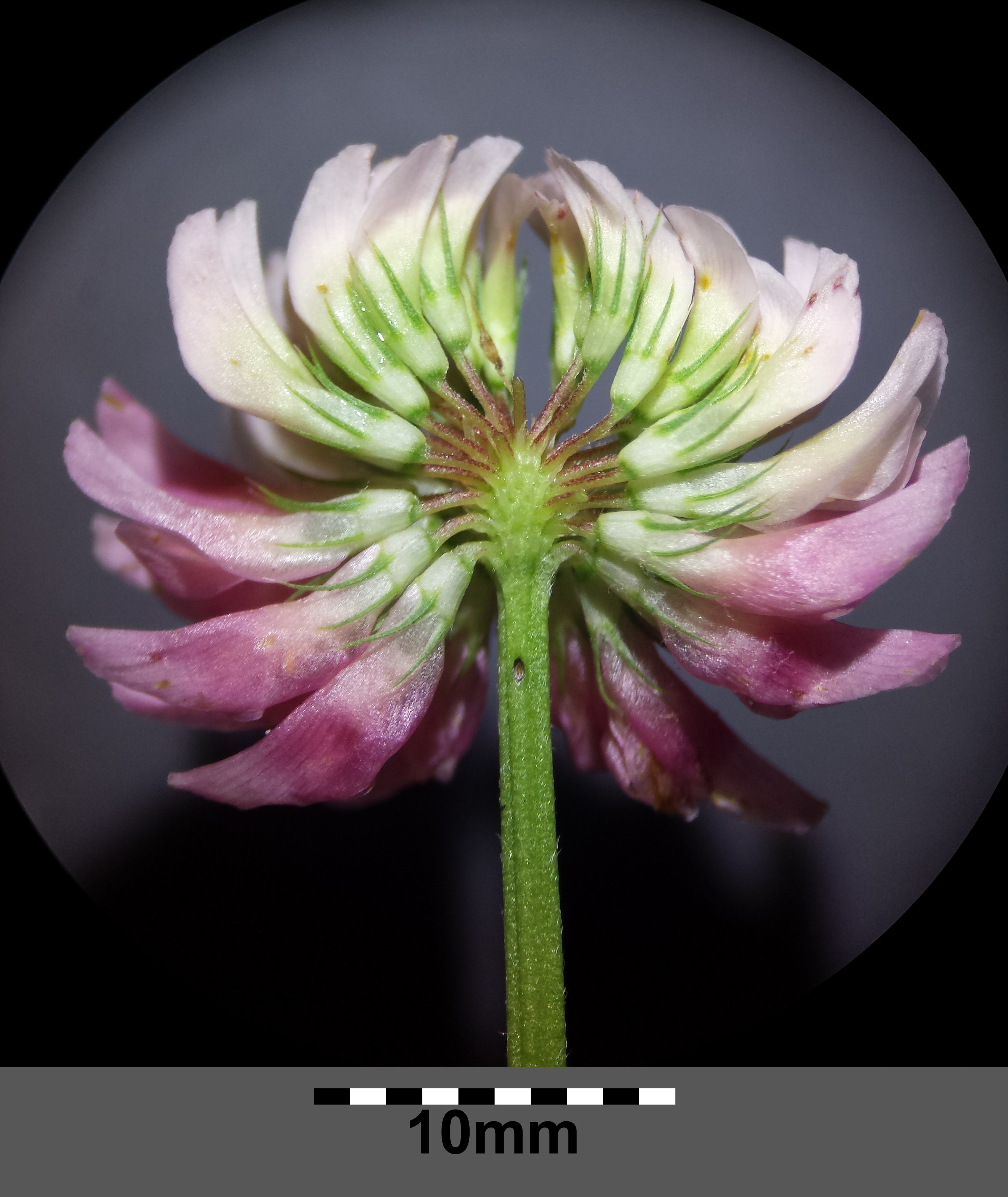 Inflorescence, front flowers removed Taxonym: Trifolium hybridum subsp. hybridum ss Fischer et al. EfÖLS 2008 ISBN 978-3-85474-187-9 Location: near Komau, district Freistadt, Upper Austria - ca. 850 m a.s.l. Habitat: ruderal area